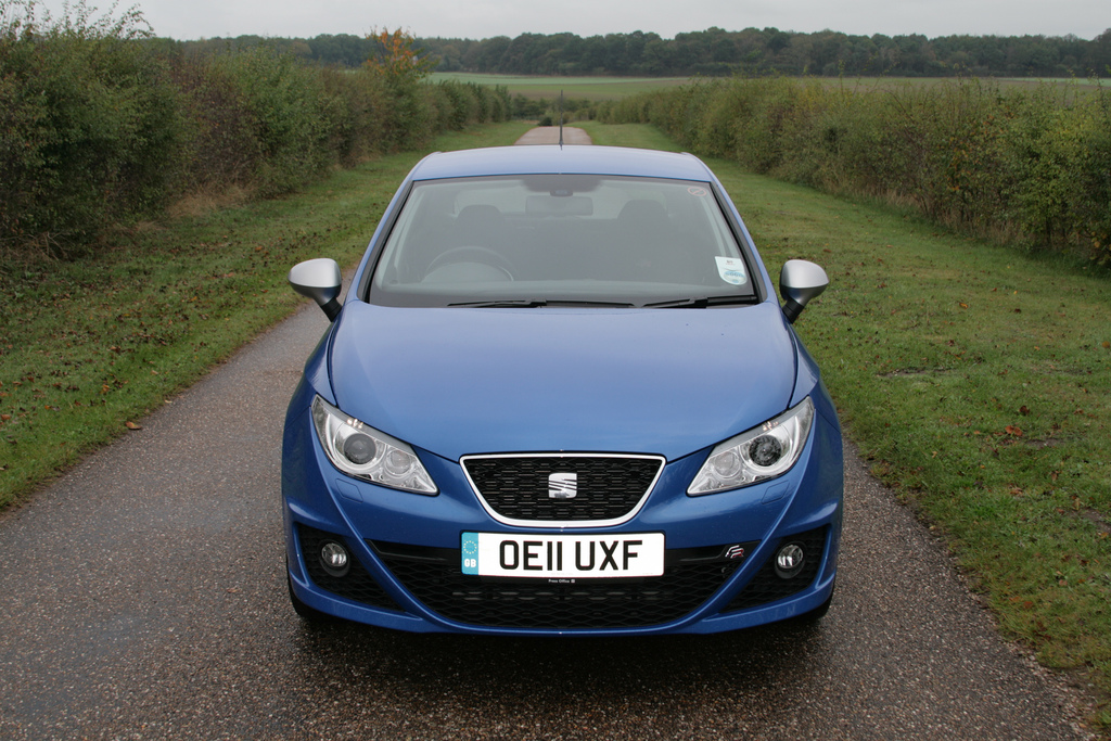 SEAT Ibiza FR front